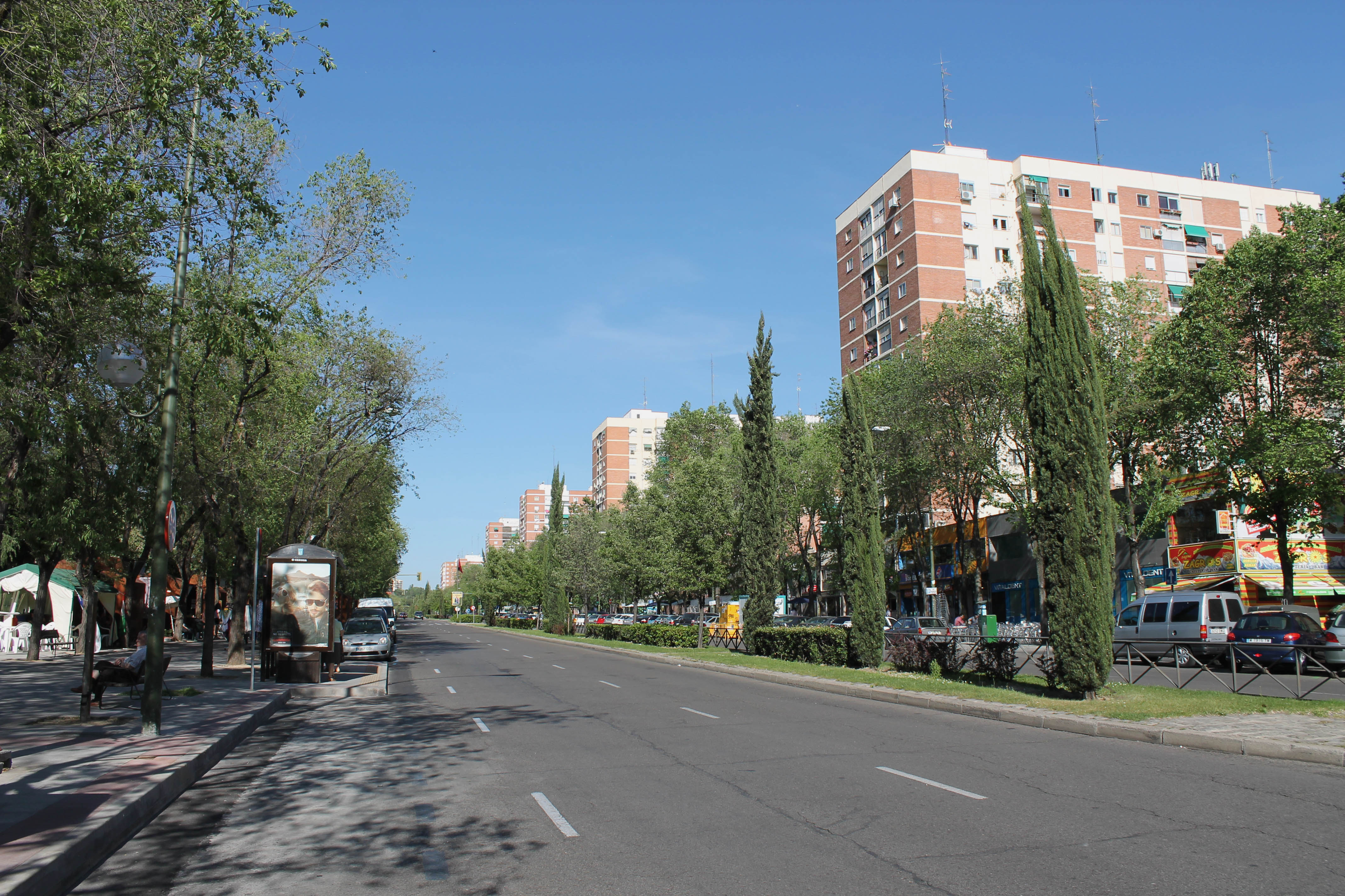 View from Avenida de Monforte de Lemos (street) in Fuencarral-El Pardo district in Madrid (Spain).